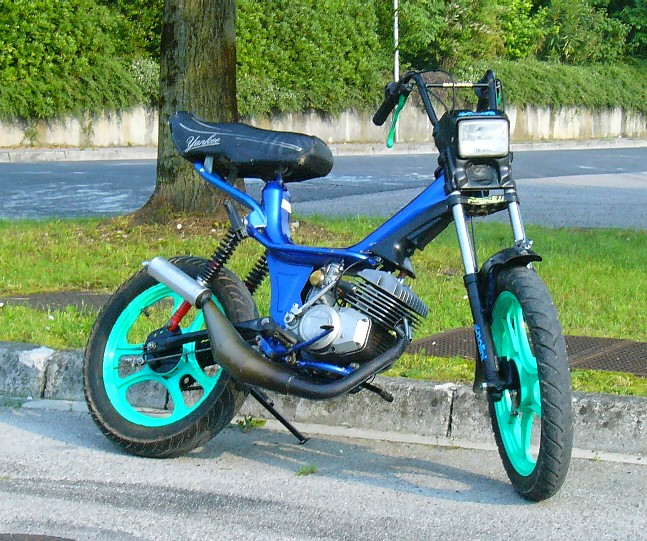 Peripoli Oxford (elaborato) Author: Joey Atroce